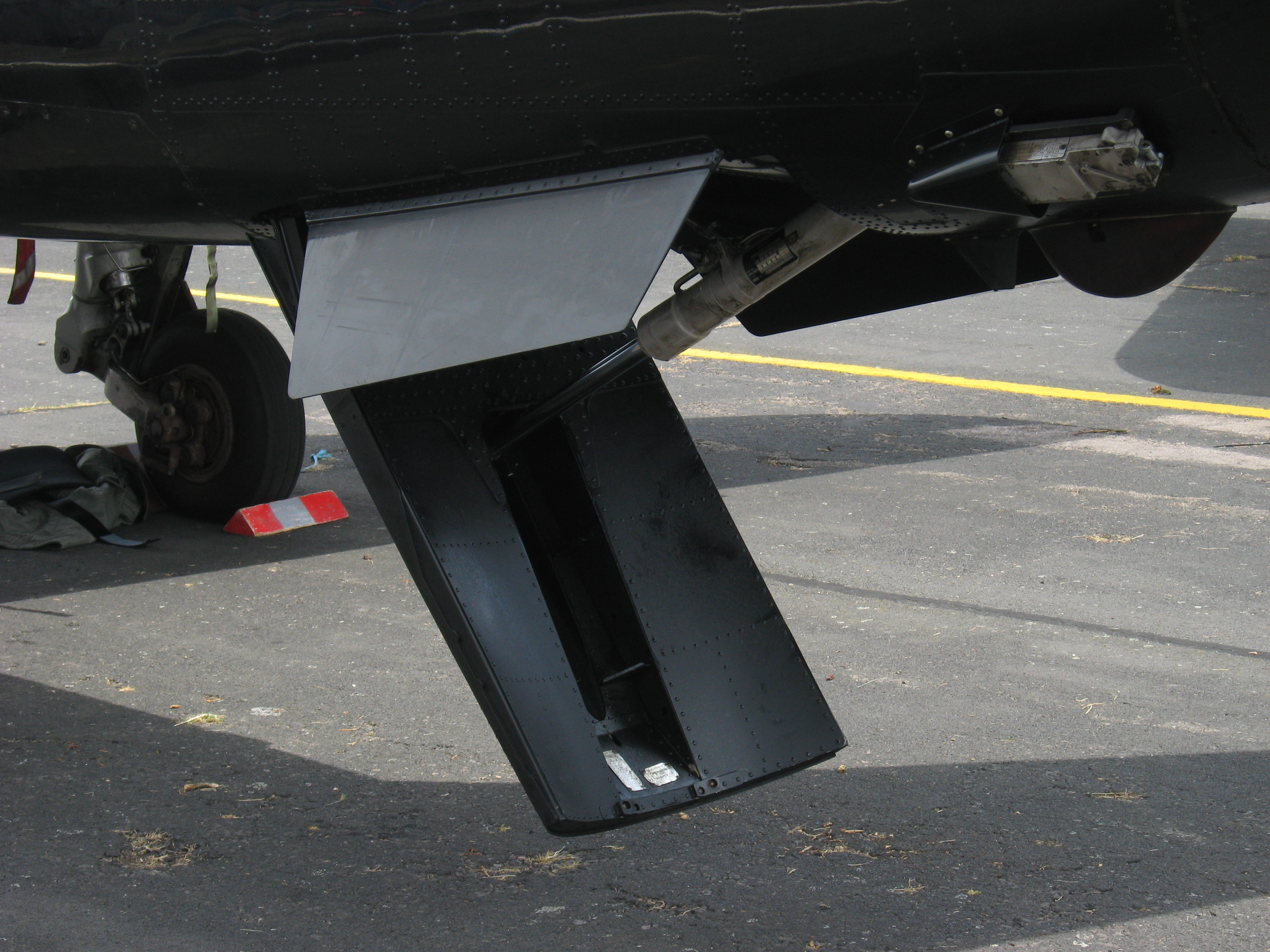 An air brake on a BAE Hawk, taken at the Biggin Hill airfair.